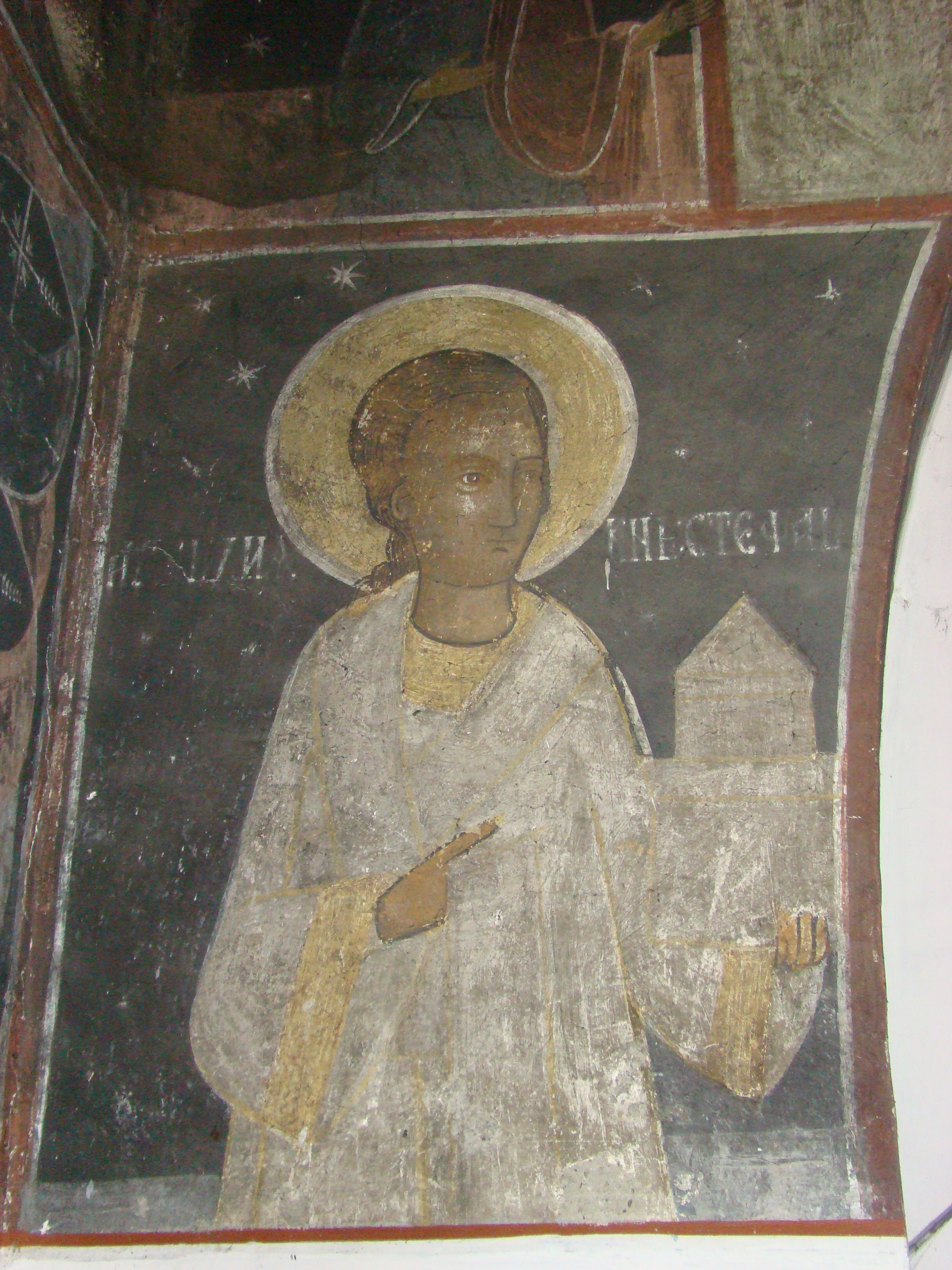 The old orthodox church „Dormition of the Theotokos” in Săsăuș, Sibiu county, Romania